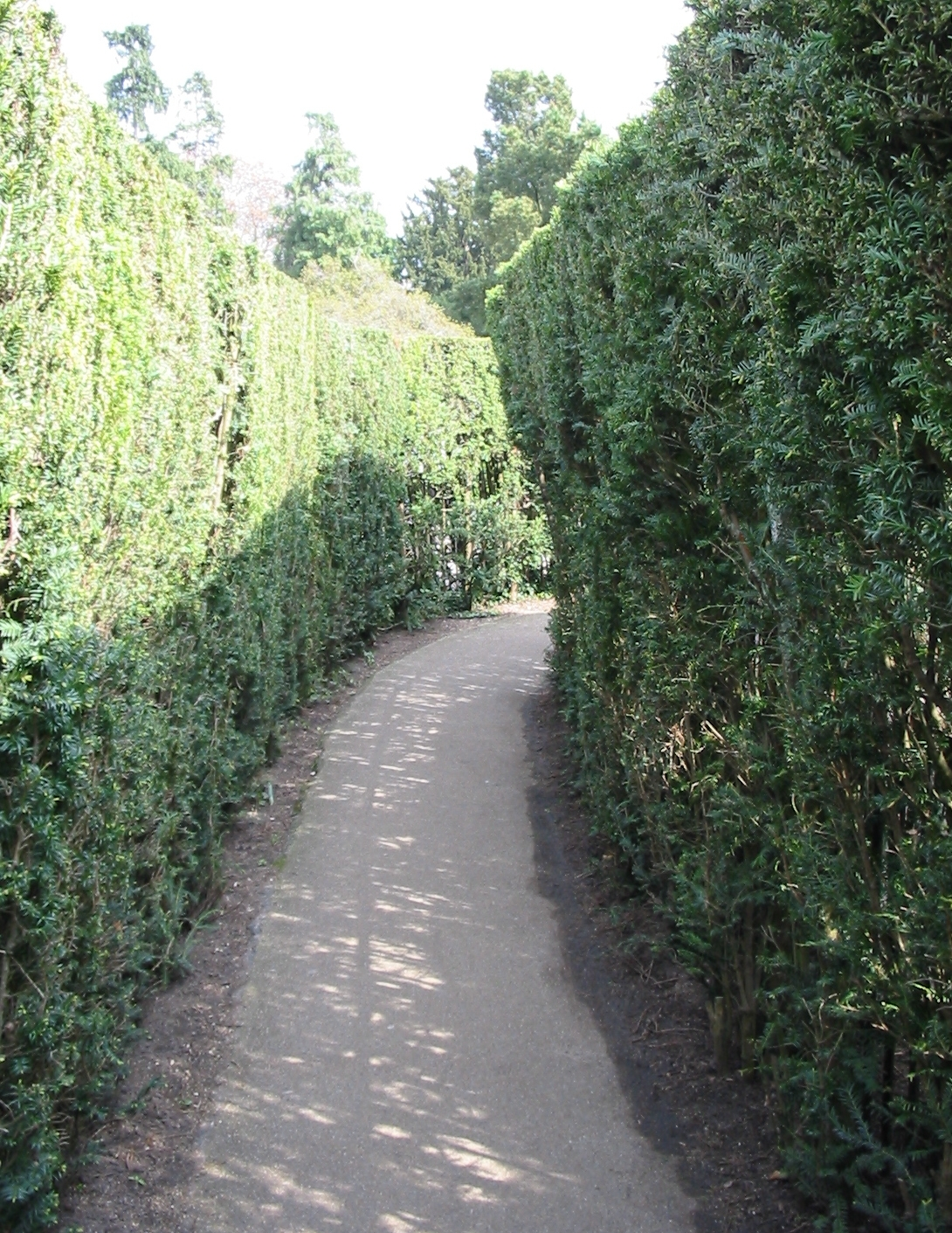 Hampton Court maze, London